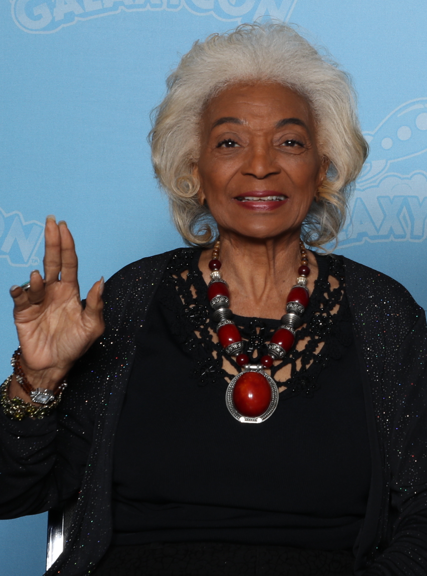 Nichelle Nichols at GalaxyCon Minneapolis in 2019